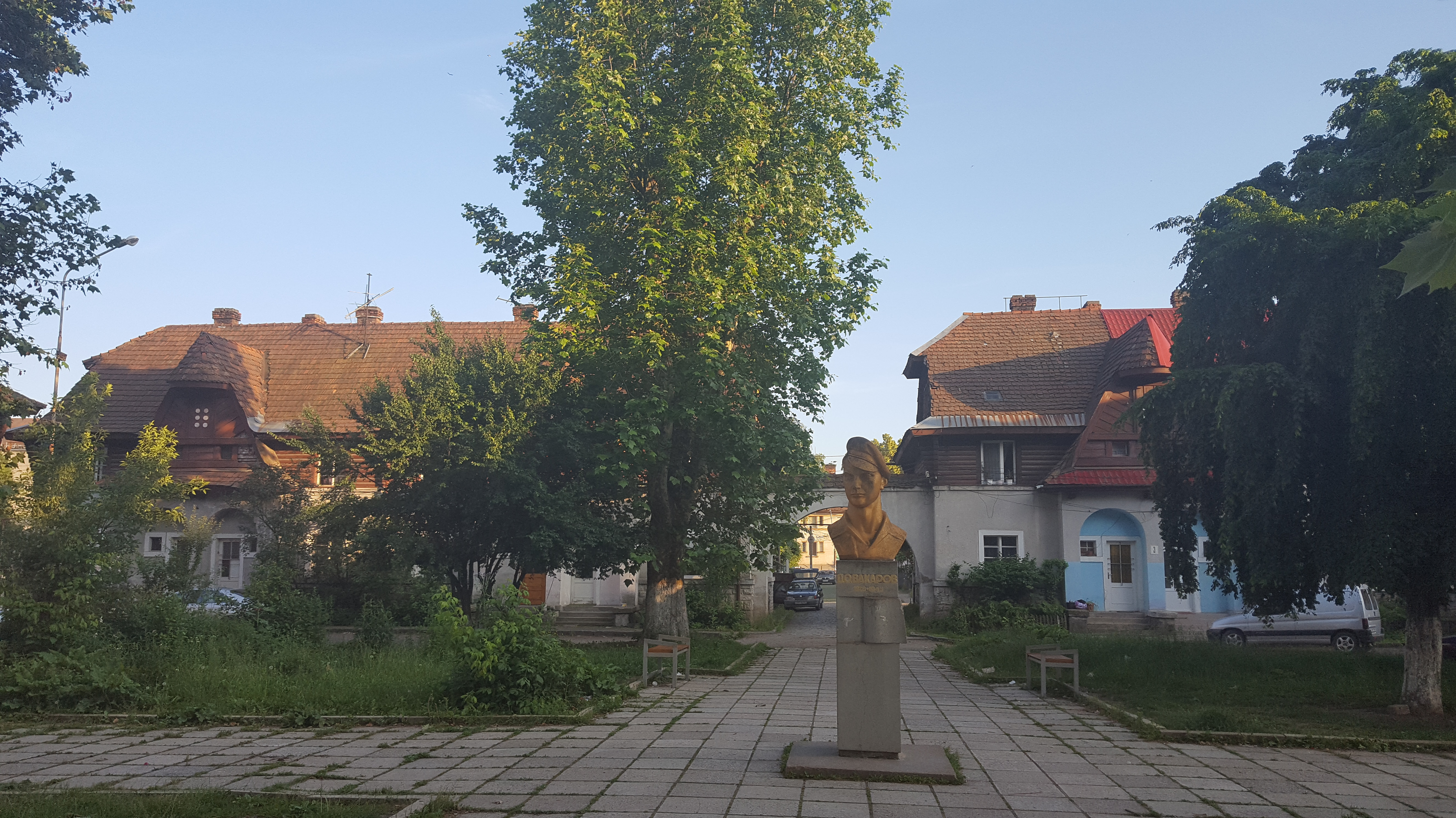 "Czech quarter" in Khust, Ukraine, with buildings constructed in 1930s by Czech architect Jindřich Freiwald (1890-1945). In the middle, there is a monument of a local poet and resistence fighter D. O. Vakarov (Дмитро Онуфрійович Вакаров, 1920-1945).